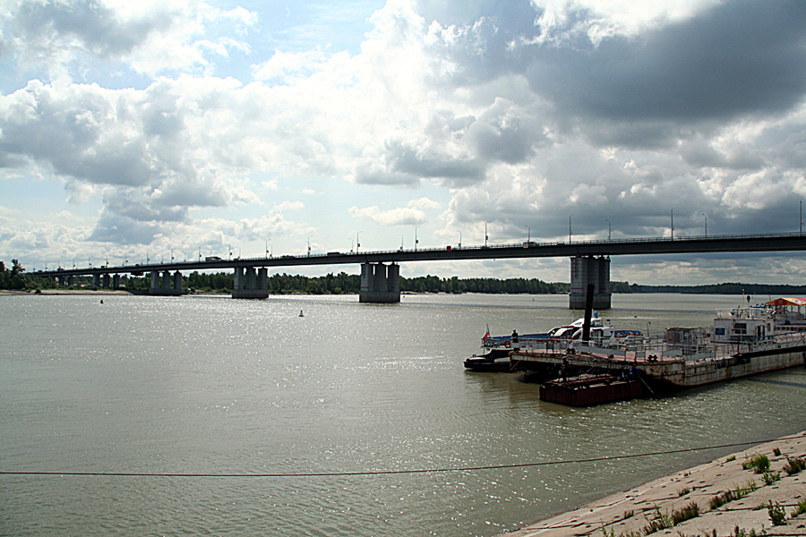 River Ob in Barnaul (Russia).